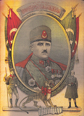 A poster of Kiazim Karabekir published after the victory against Armenia: His Excellency Kiazim Karabekir Pasha: the conqueror of Armenia and the father of orphans, the commander of our victorious Eastern armiesTürkçe: Kâzım Karabekir'in zaferden sonra çıkarılan bir posteri: Ermenistan fatihi ve yetimler babası, muzaffer Şark ordularımızın kumandanı Kâzım Karabekir Paşa hazretleri